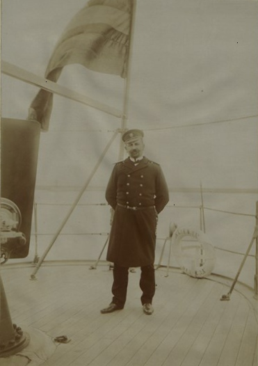 Bulgarian captain Stancho Dimitriev (Chief of the Bulgarian Navy) on board the cruiser "Nadezhda".